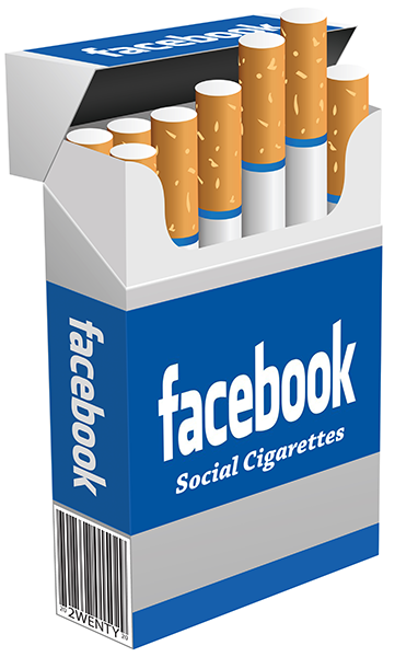 The poster, Facebook Cigarettes by the artist 2wenty.